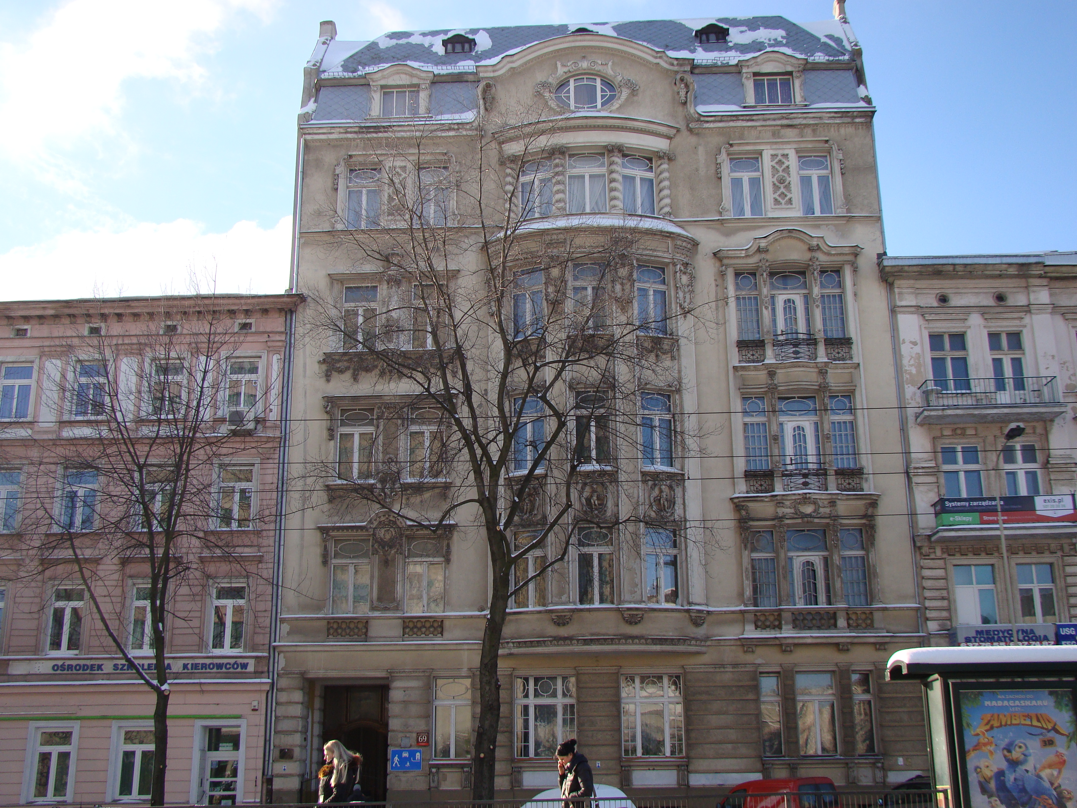 Tenement house in Łódź